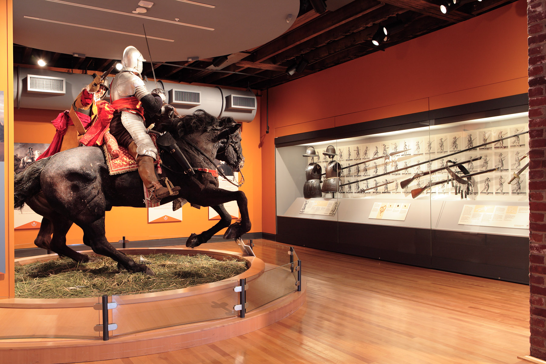 Antique armor, pole arms, and rifles before a combat tableau in "British Royal Armouries USA."